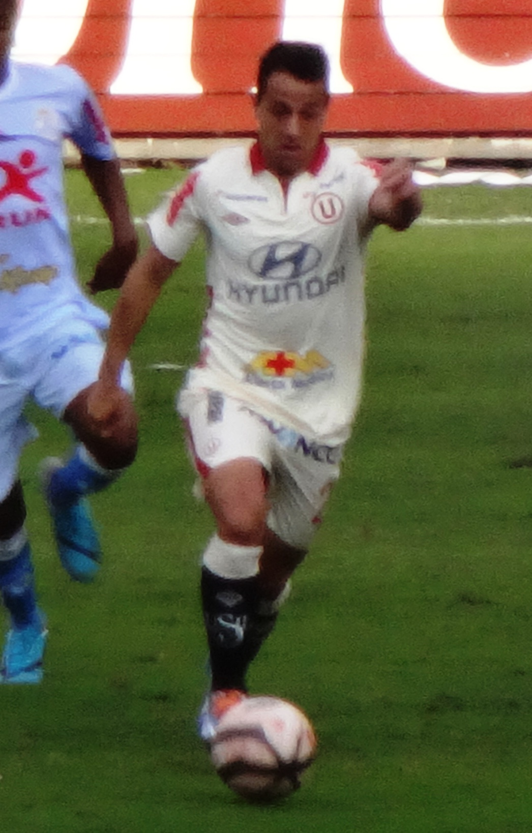 Diego Guastavino (Montevideo, 1984), uruguayan footballer. Peruvian 2nd. playoff 2013.